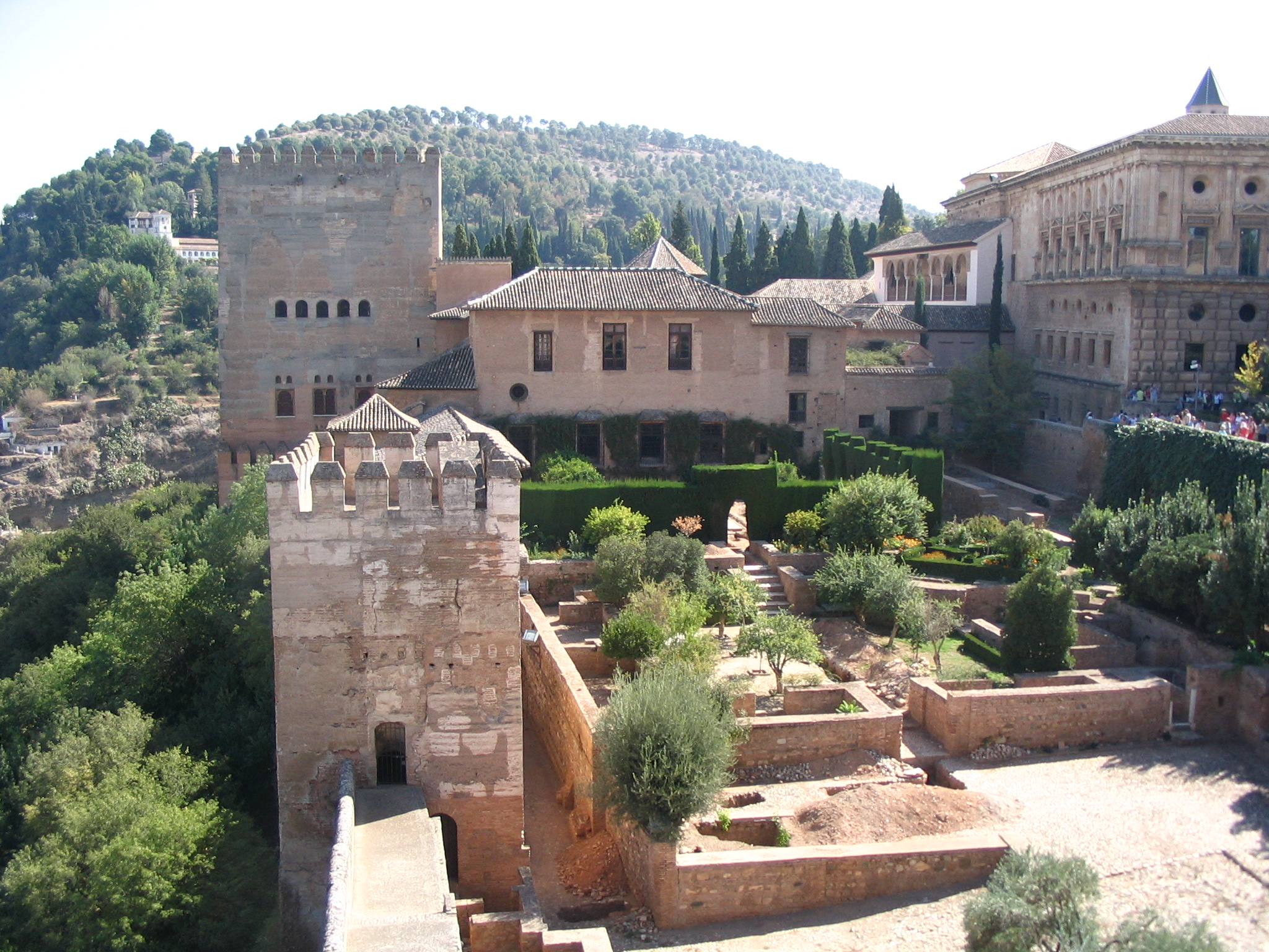 Walls and lateral of Charles V Palace from Alcazaba.